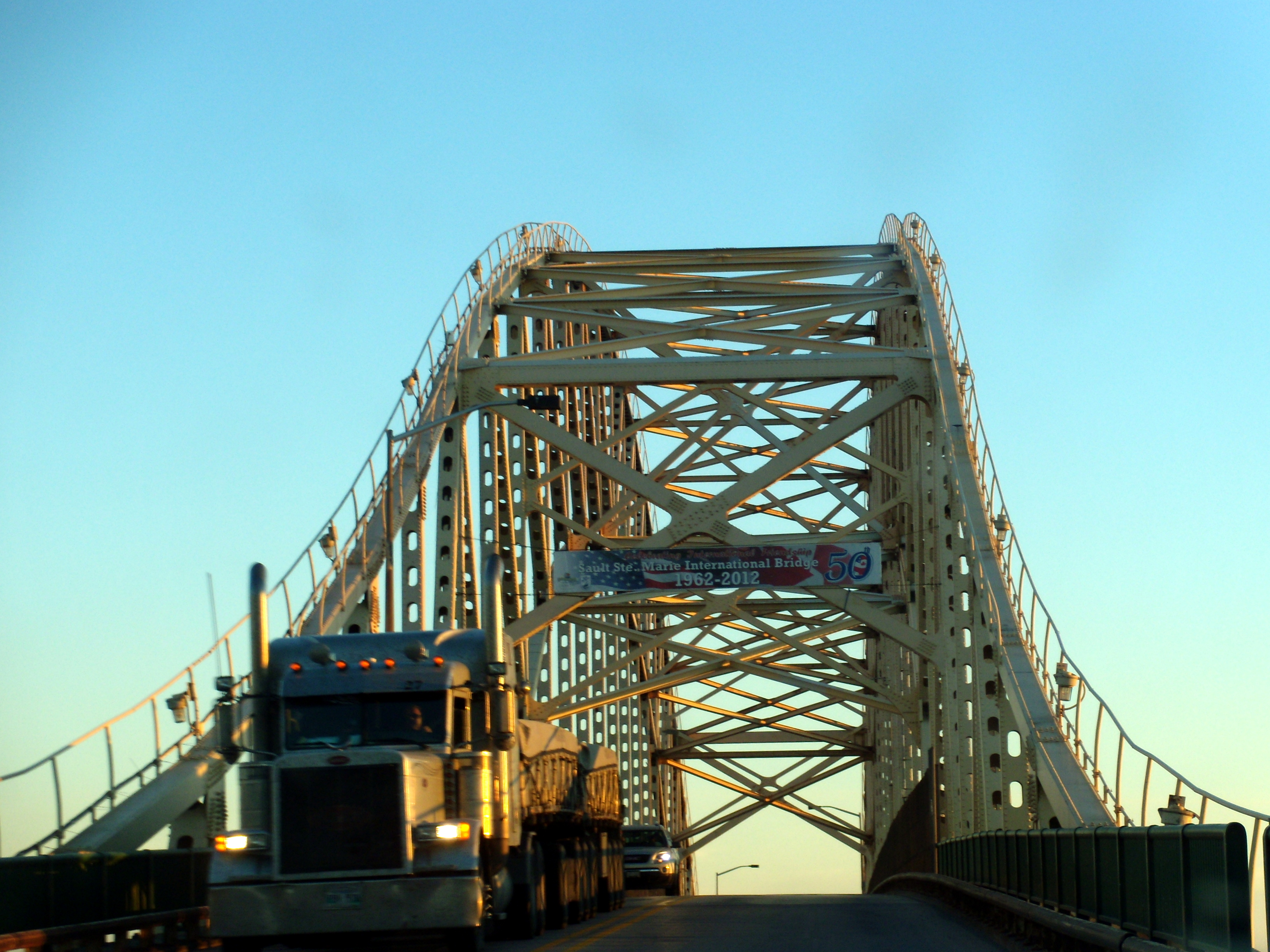 Sault Ste Marie International Bridge, southbound